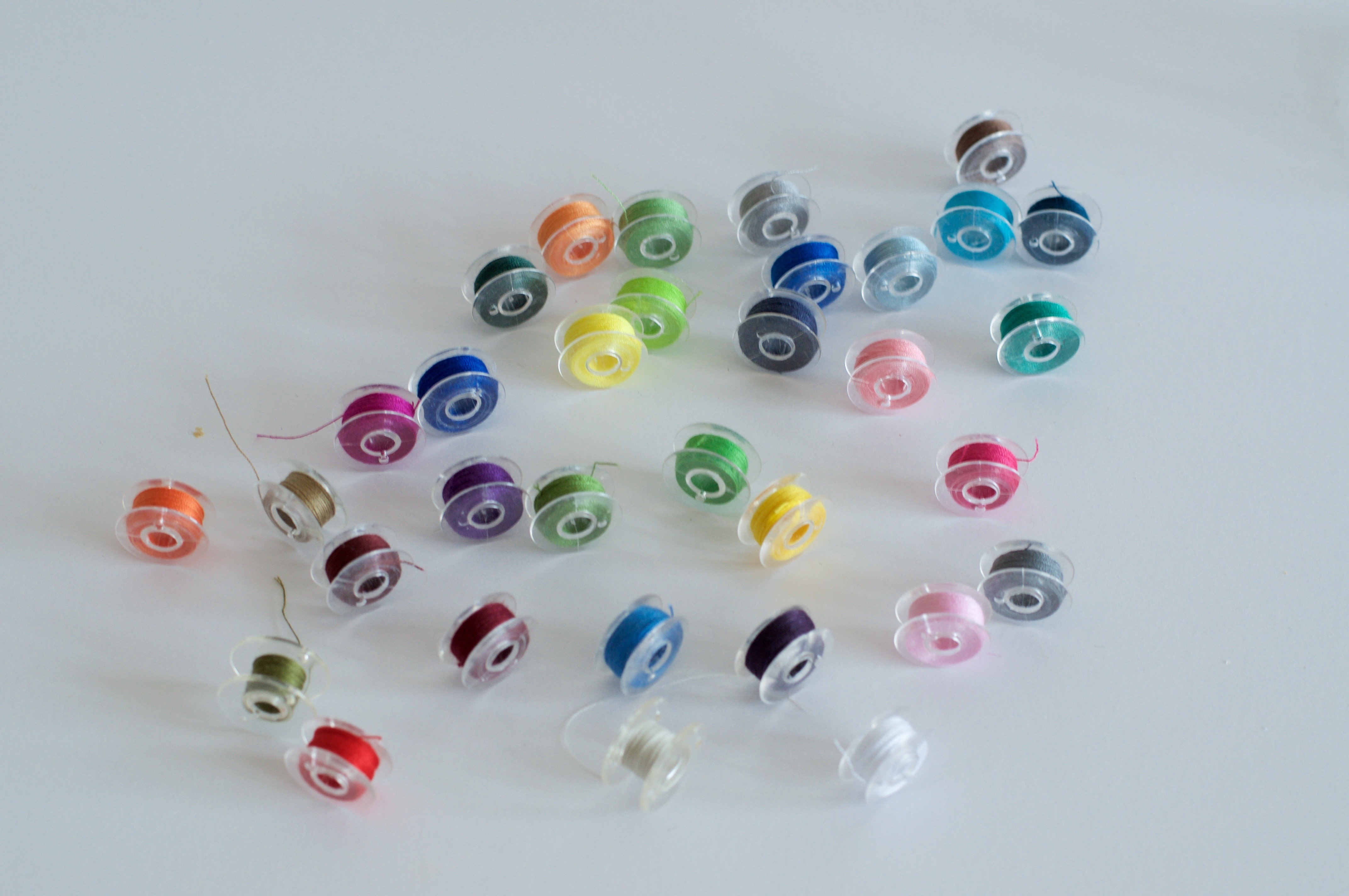 This is a photo of plastic sewing machine bobbins with sewing yarn on it.